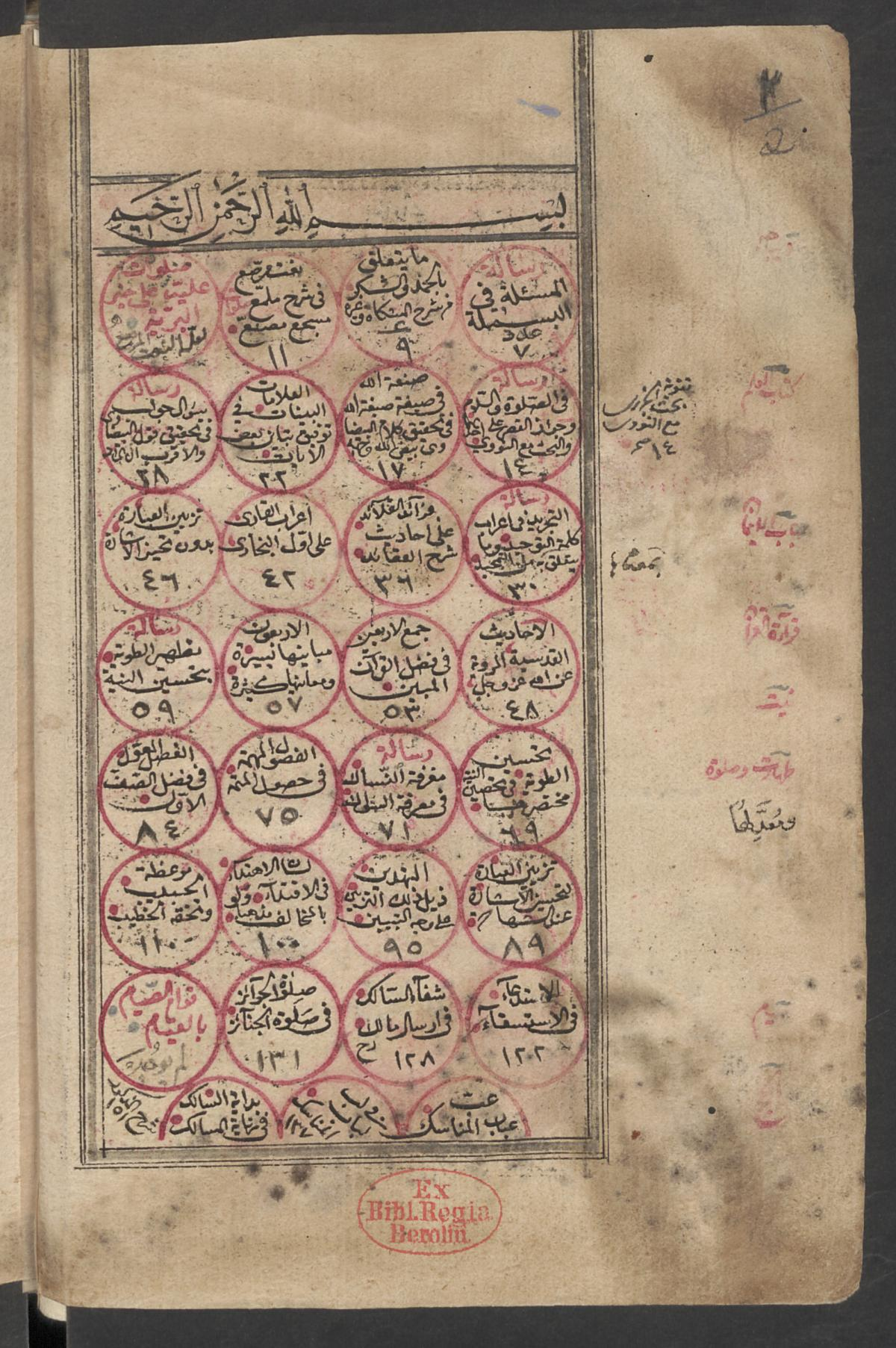 First page of table of contents ot the manuscript Berlin Lbg 295, a collection of treatises by the Meccan scholar Mulla Ali al-Qari (d. 1606)